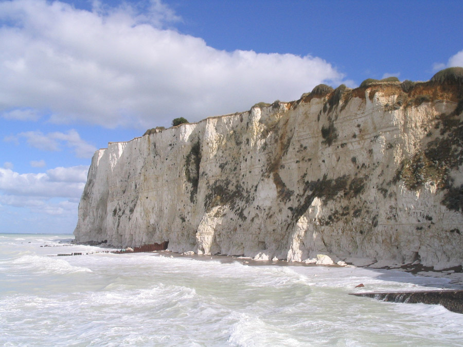 Chalk cliff of Mers-les-Bains, at high tide.